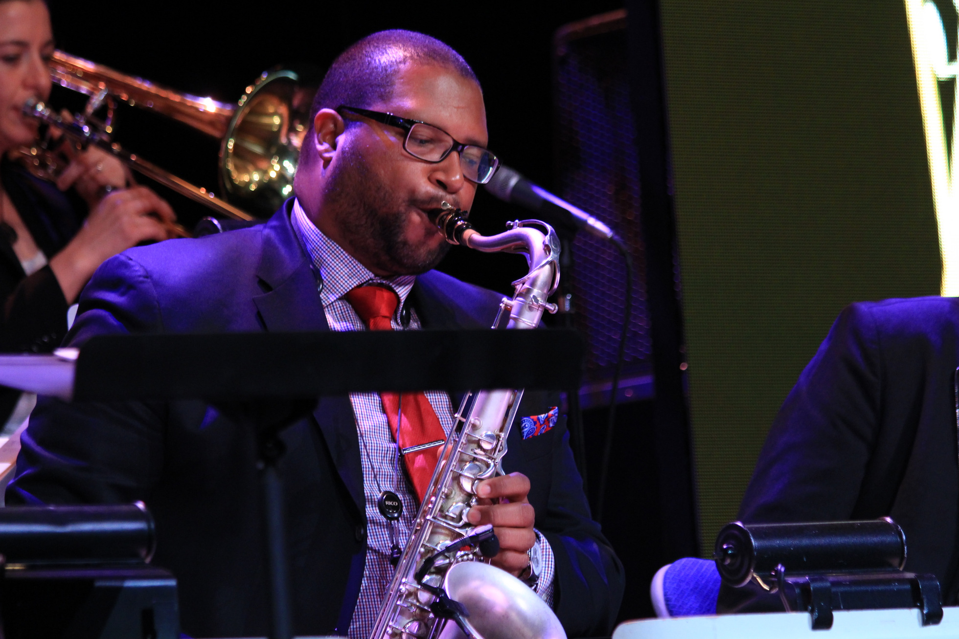 Jeff Greene in 2014